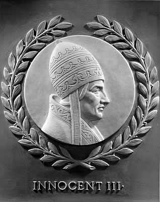 Innocent III marble bas-relief, one of 23 reliefs of great historical lawgivers in the chamber of the U.S. House of Representatives in the United States Capitol. Sculpted by Joseph Kiselewski in 1950. Diameter 28 inches.